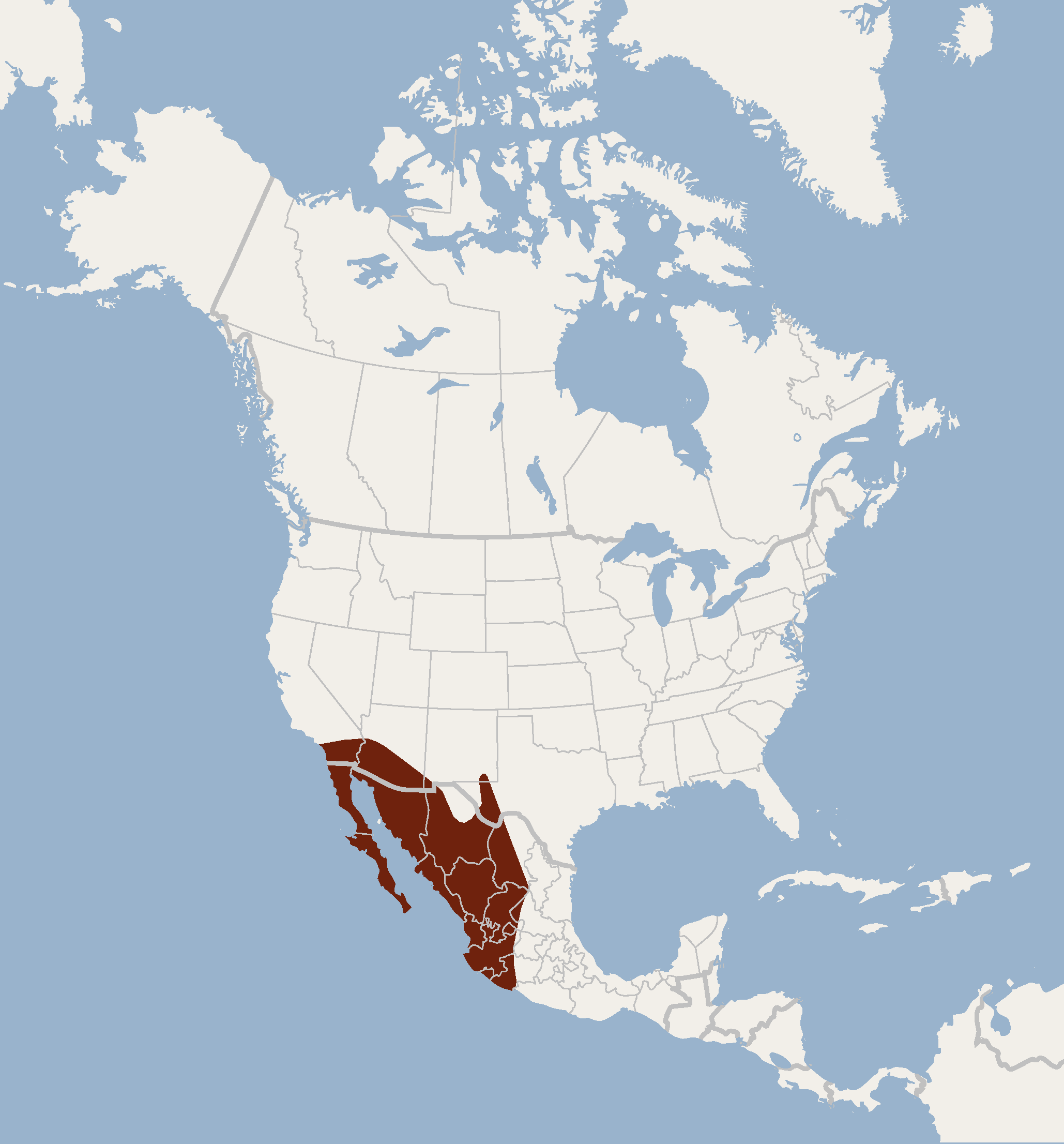 Geographical distribution of Nyctinomops femorosaccus according to